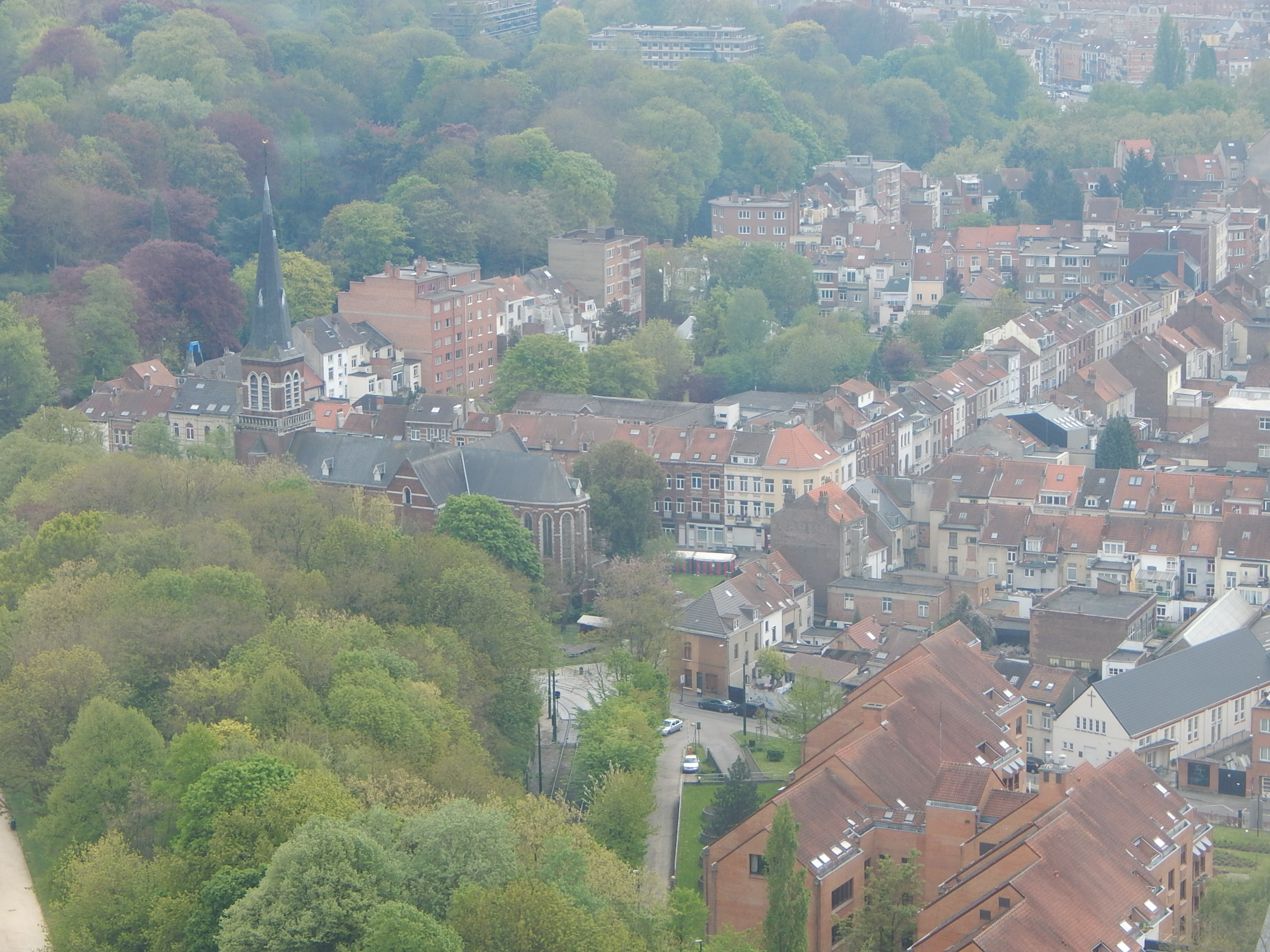 St. Lambert's church in Brussels (Laeken). View from Atomium